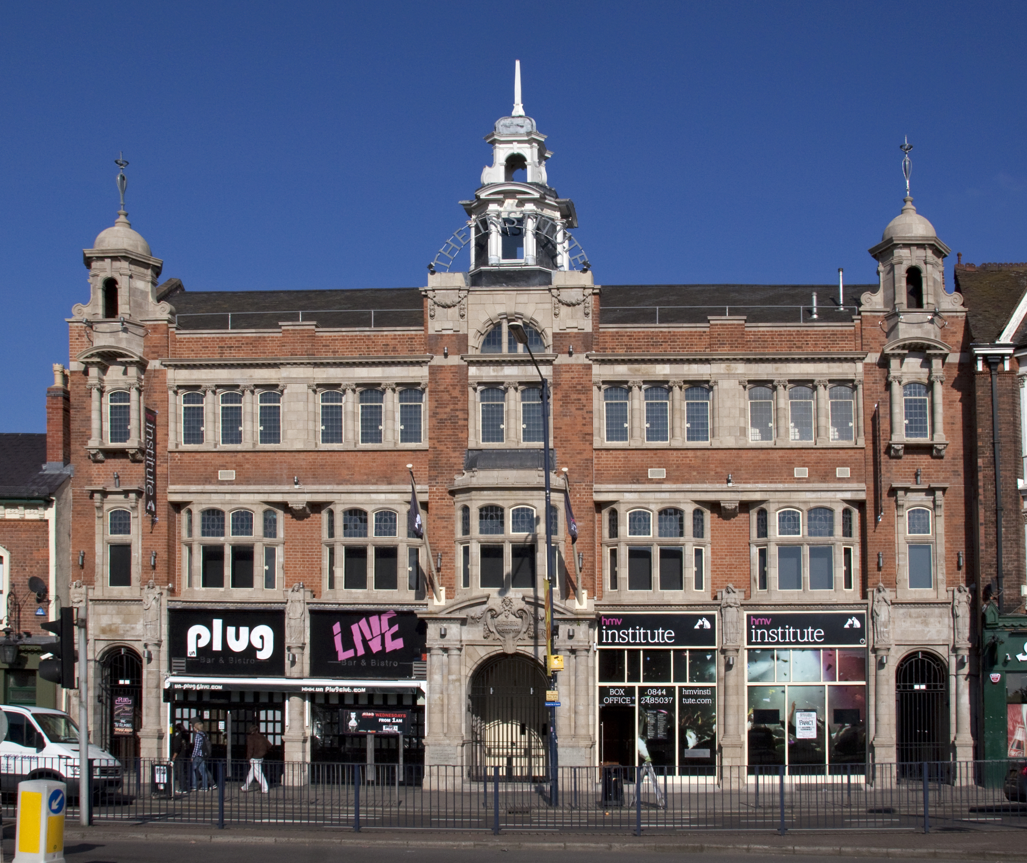 Originally built as an institutional church attached to Carr's Lane Congregational Church in 1908. It was used as a theatre and church hall until 1954. It was bought by Birmingham City Council in 1955 for £65,000 and was used as a civic hall. It is now the HMV Institute, after an expensive refit to make it a major music venue. (re-opened in 2010)